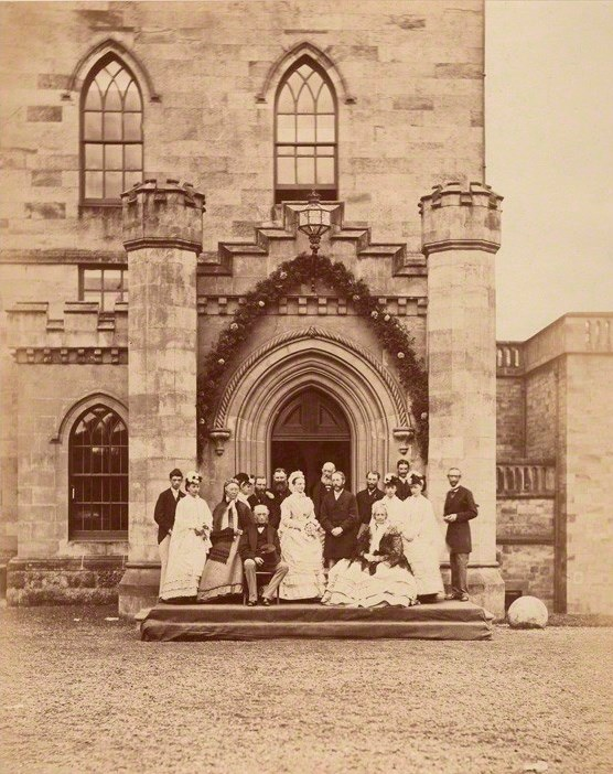 NPG x45590; Cospatrick Home, 11th Earl of Home; Maria, Countess of Home; Charles, 12th Earl of Home; Lucy, Countess of Home